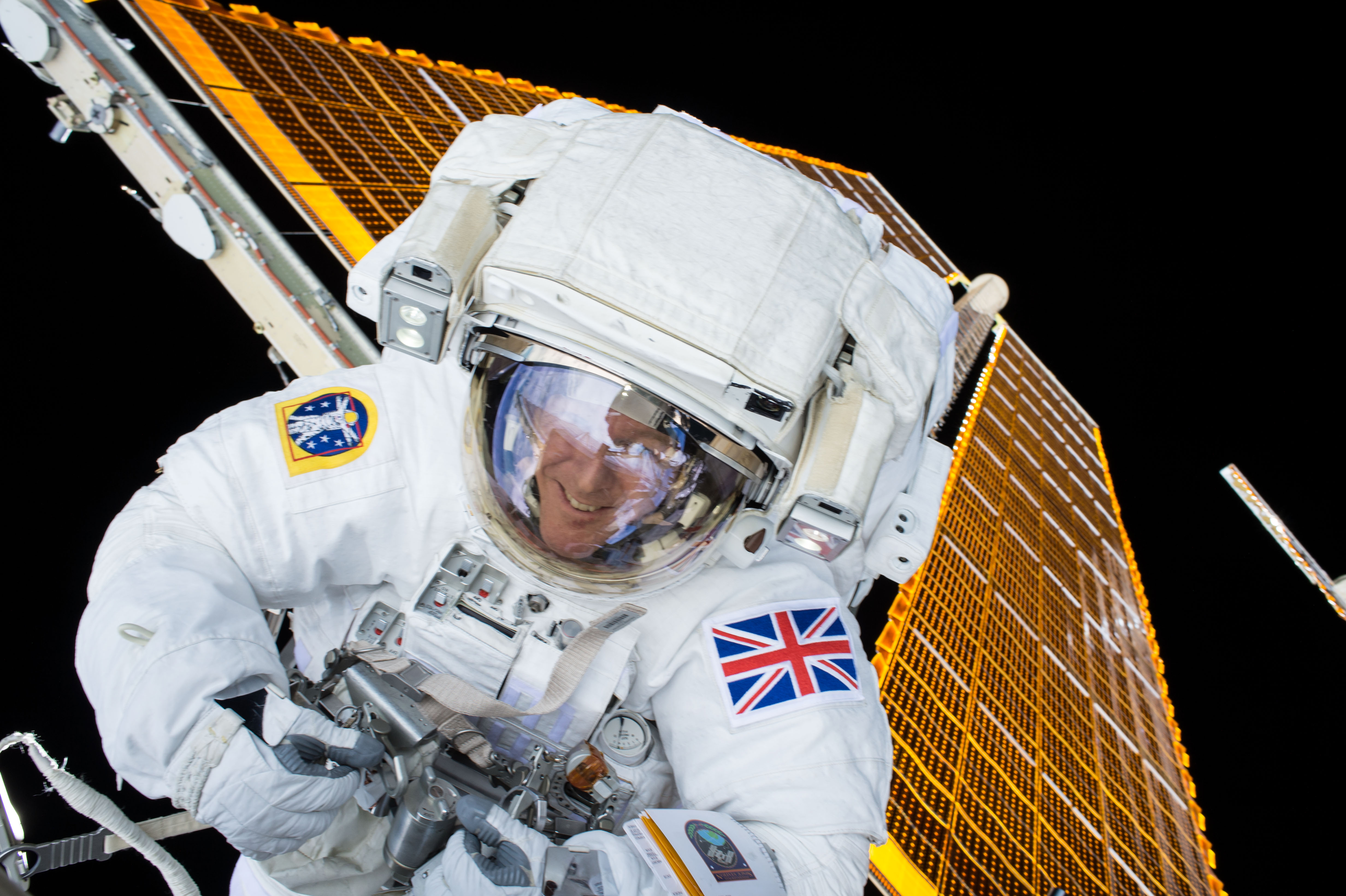 ESA (European Space Agency) astronaut Tim Peake seen during his first spacewalk. Peake and NASA astronaut Tim Kopra conducted a spacewalk on Jan. 15, 2016 and successfully replaced a failed voltage regulator that caused a loss of power to one of the station’s eight power channels in Nov. 2015. The pair ended its spacewalk early after Kopra reported a small water bubble had formed inside his helmet.